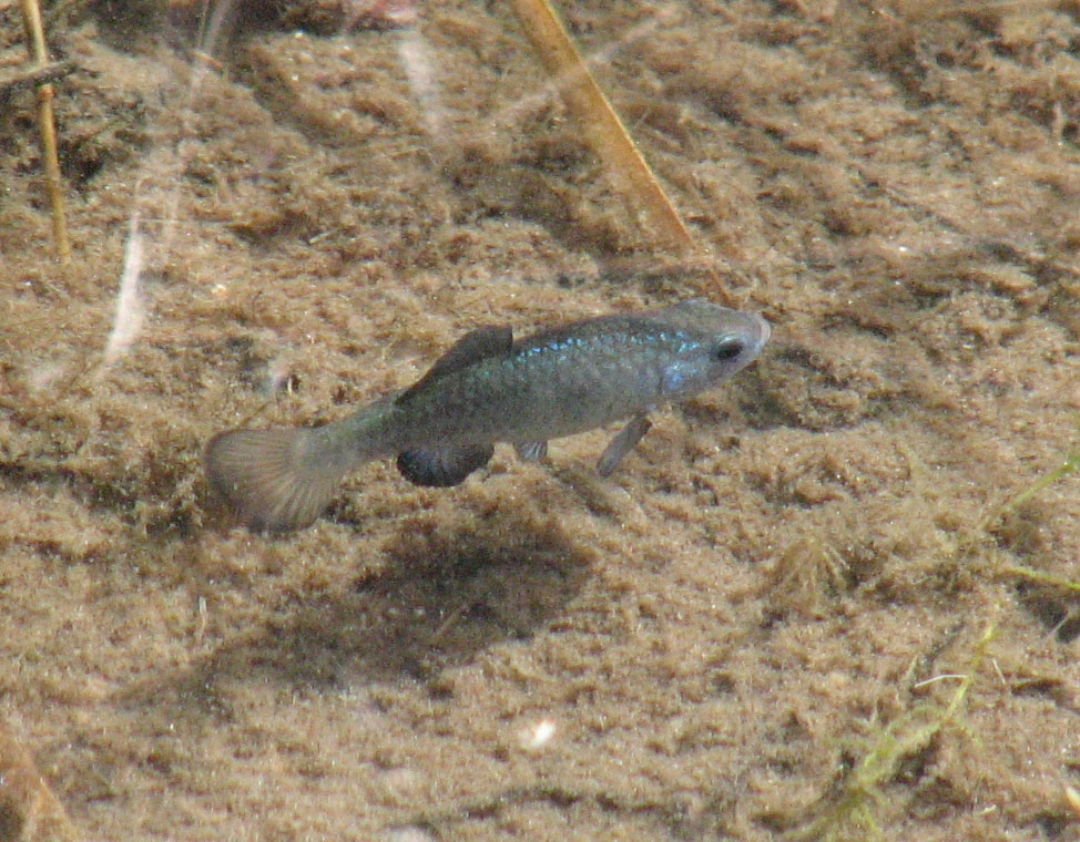 A Sonoyta pupfish (also called a Quitobaquito pupfish)